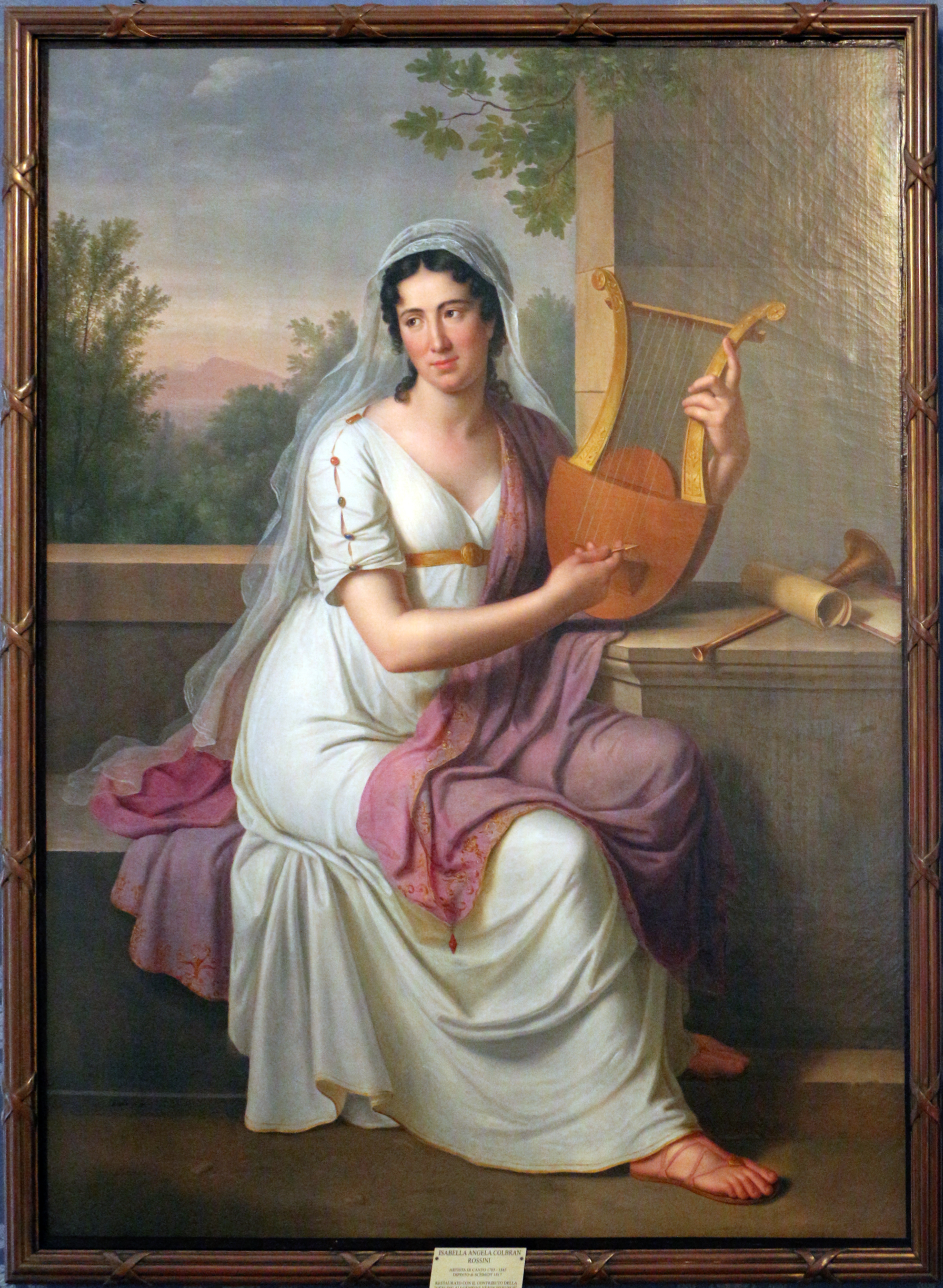 Museo del Teatro alla Scala (Milan)